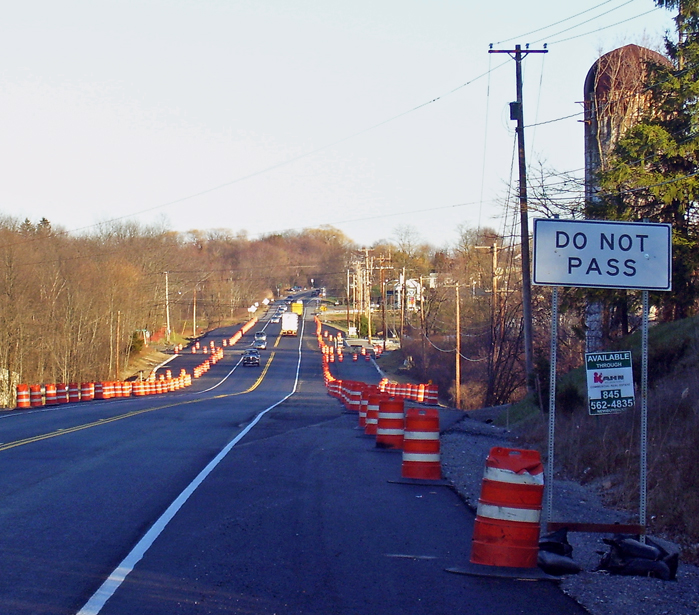 Photographed by Daniel Case 2006-12-09